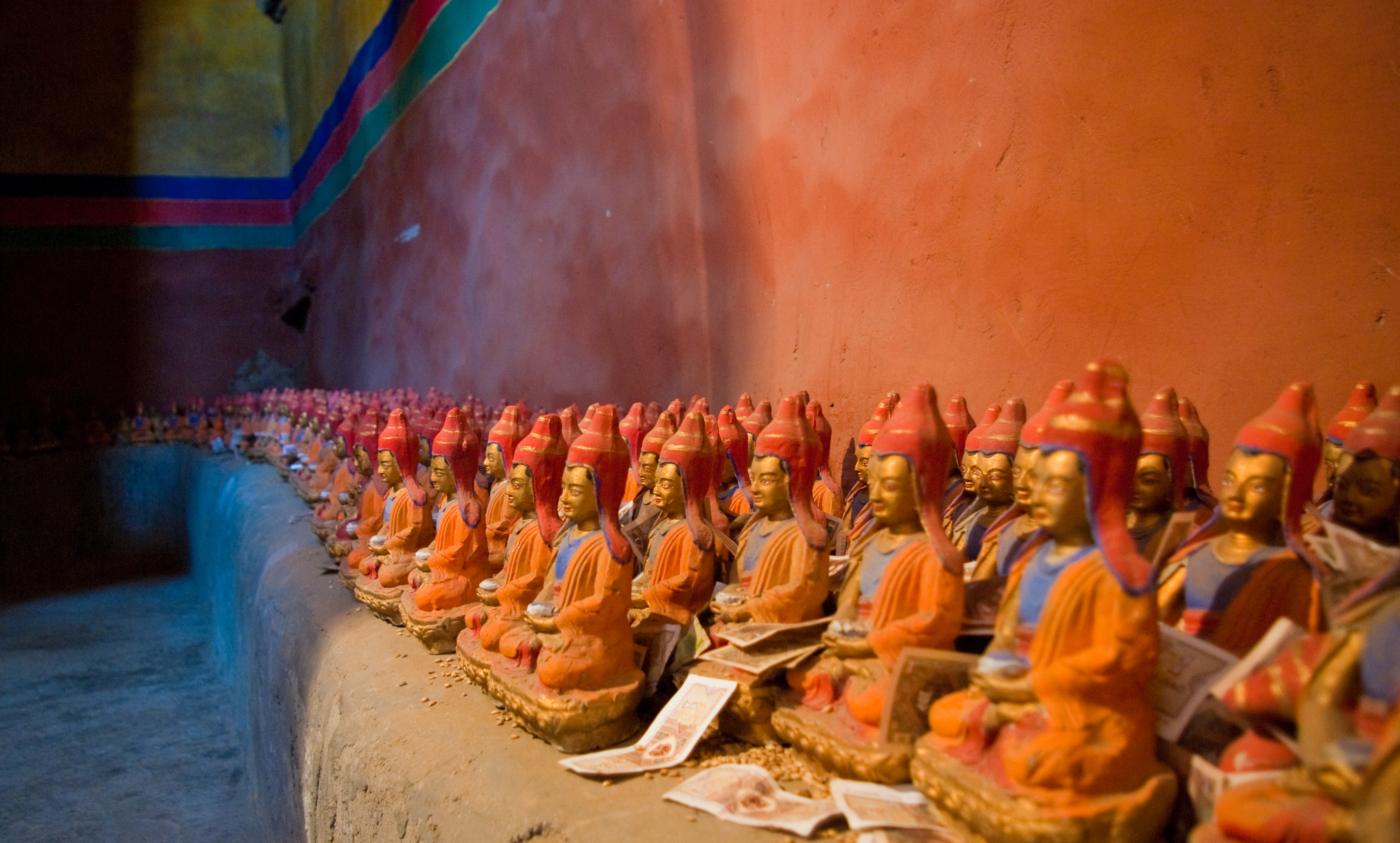 Reting monastery